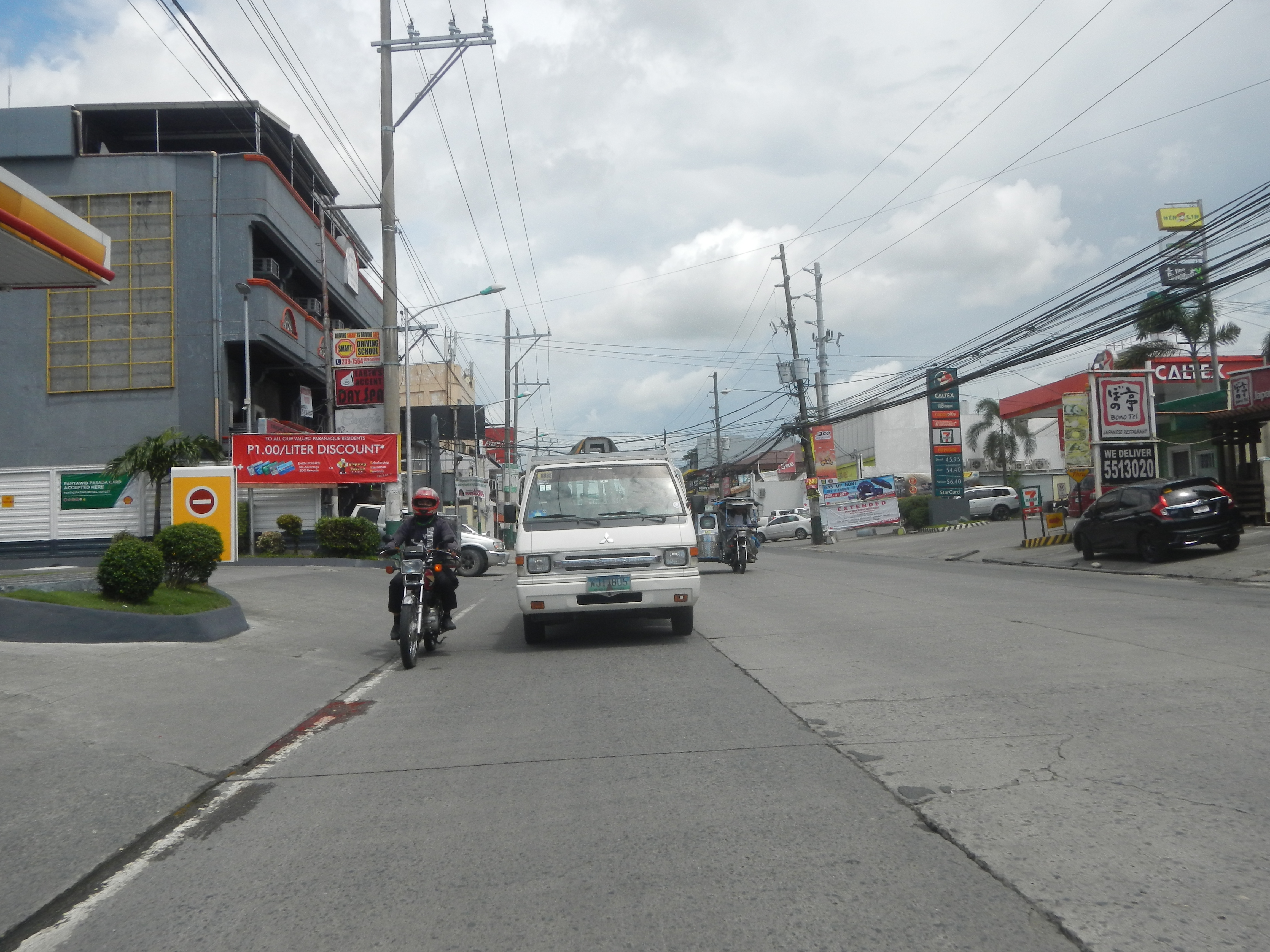 Doña Soledad Avenue (Better Living, Don Bosco and Sun Valley, Sucat, Parañaque City) in Districts and barangays Don Bosco 14°28'54"N 121°1'33"E Sun Valley 14°29'29"N 121°2'1"E Parañaque City from Doña Soledad Avenue from Dr. A. Santos Avenue formerly called (and still known locally as) Sucat Road Don Bosco 14°28'48"N 121°1'31"E and Taguig City (Note: Judge Florentino Floro, the owner, to repeat, Donor Florentino Floro of all these photos hereby donate gratuitously, freely and unconditionally Judge Floro all these photos to and for Wikimedia Commons, exclusively, for public use of the public domain, and again without any condition whatsoever).